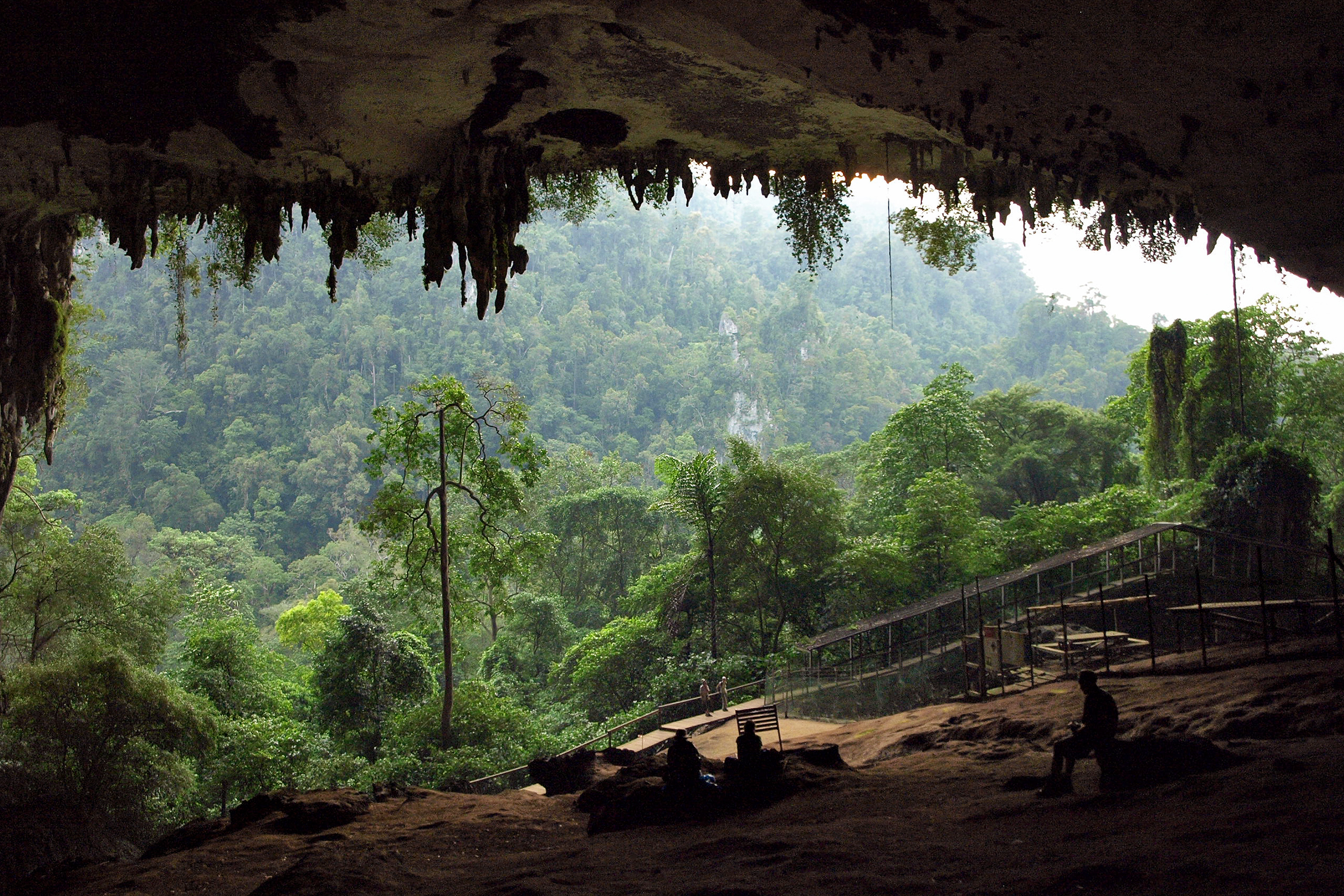 Niah Caves - Malaysian Borneo. Entrance to the Great Cave.